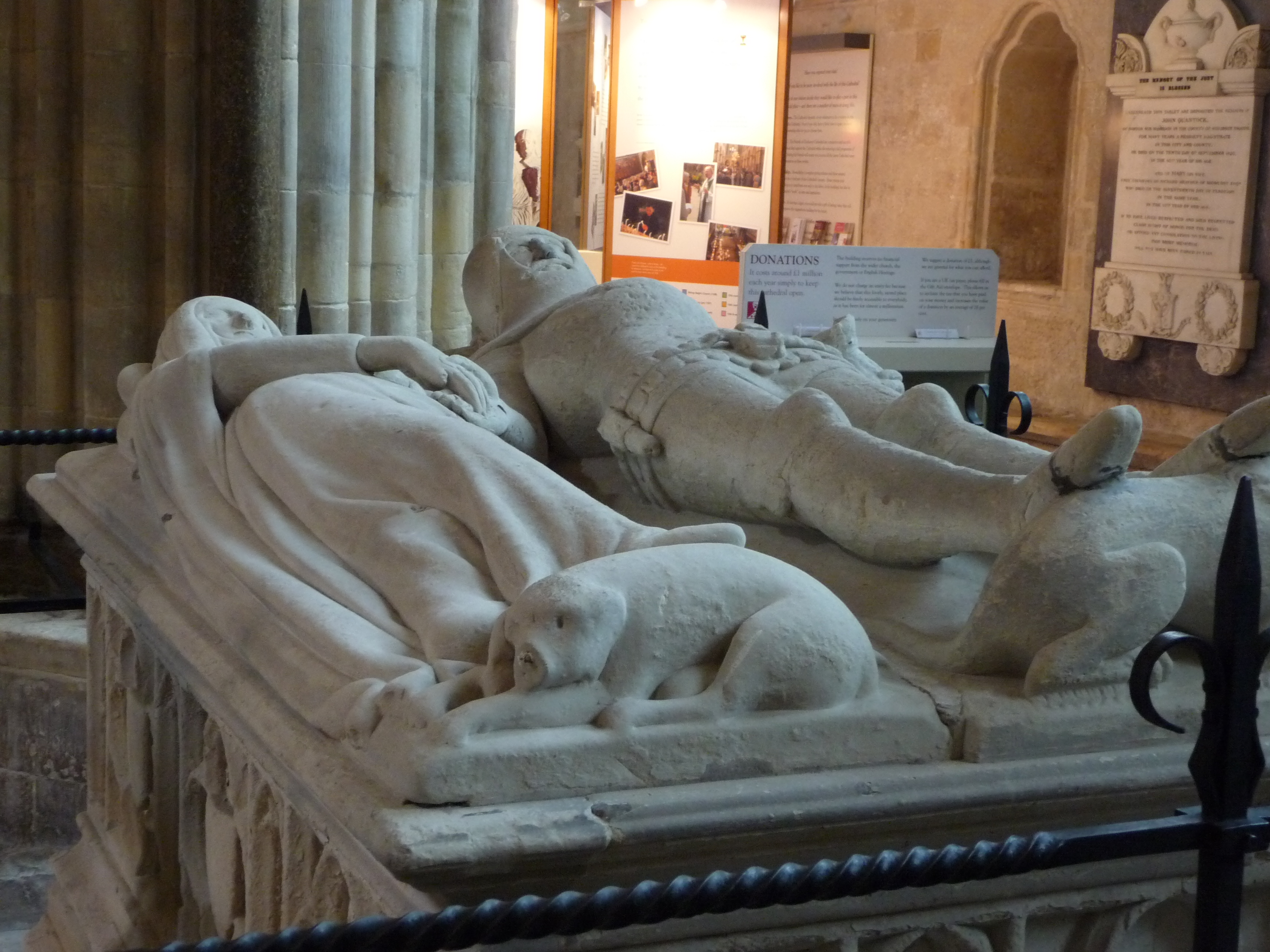 The Arundel memorial effigies at Chichester Cathedral in Chichester, England, which inspired the poem An Arundel Tomb by Philip Larkin. (Note: The effigies in Chichester Cathedral are attributed to Richard FitzAlan and Eleanor of Lancaster. FitzAlan and Eleanor were actually buried in Lewes Priory. Although Larkin called the effigies a "tomb", they are actually a "memorial". See Talk, Distinction needs to be made: Not a "tomb" but a "memorial".)